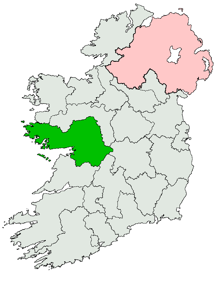 Map depicting the former Irish electoral constituency of Kildare-Wicklow, created under the Government of Ireland Act 1920 and abolished under the Electoral (Revision of Constituencies) Act of 1935.